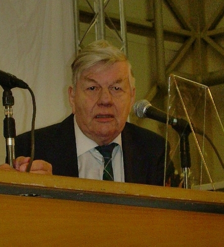 Finnish zoologist Kari Lagerspetz at the Turku International Book Fair.